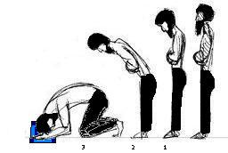 Adaption of Different_kinds_of_bows_in_eo.gif uploaded by Arseni